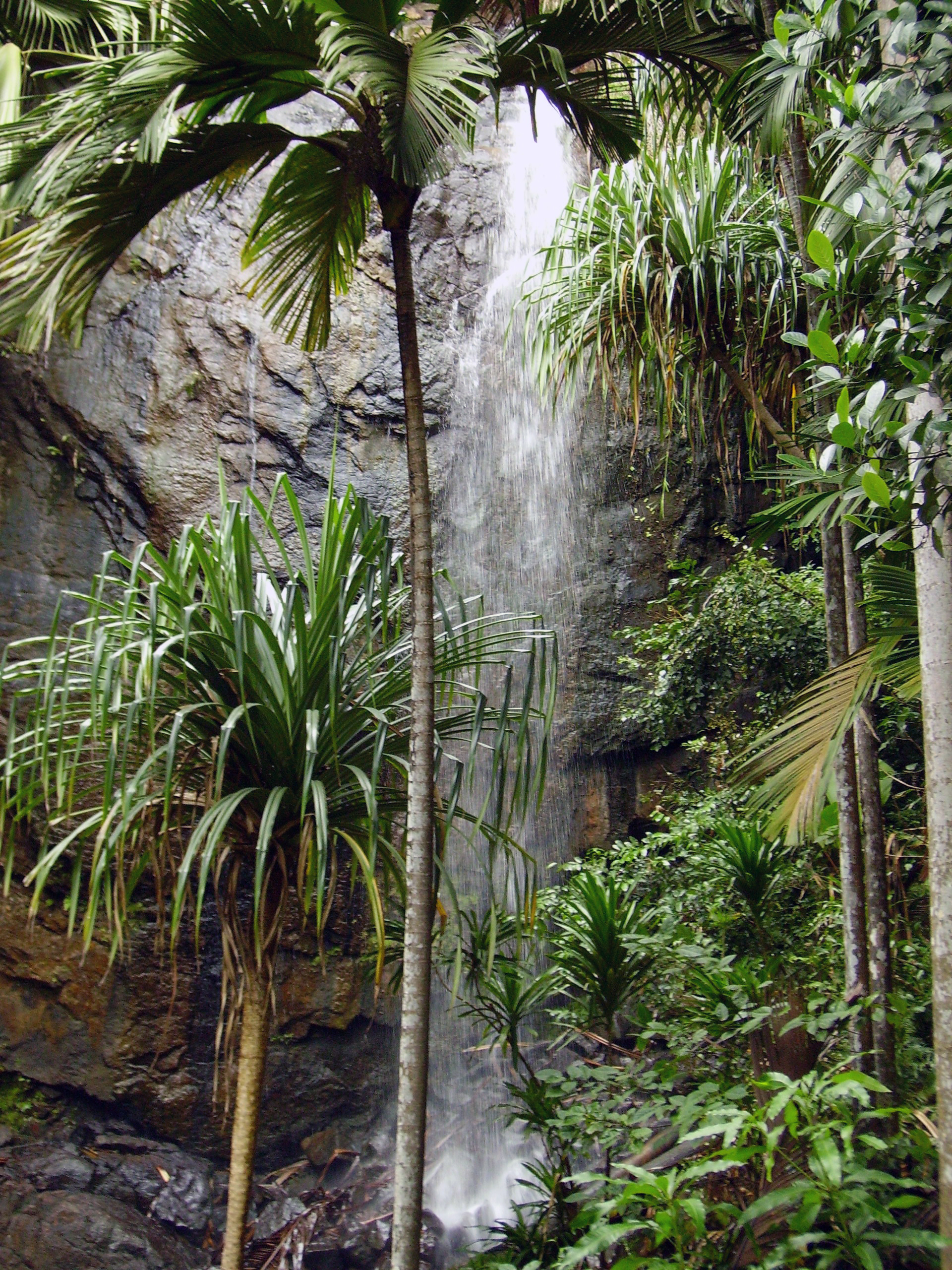 Valleé de Mai (UNESCO World Heritage), Praslin, Seychelles. Photo taken by User in July 2005.